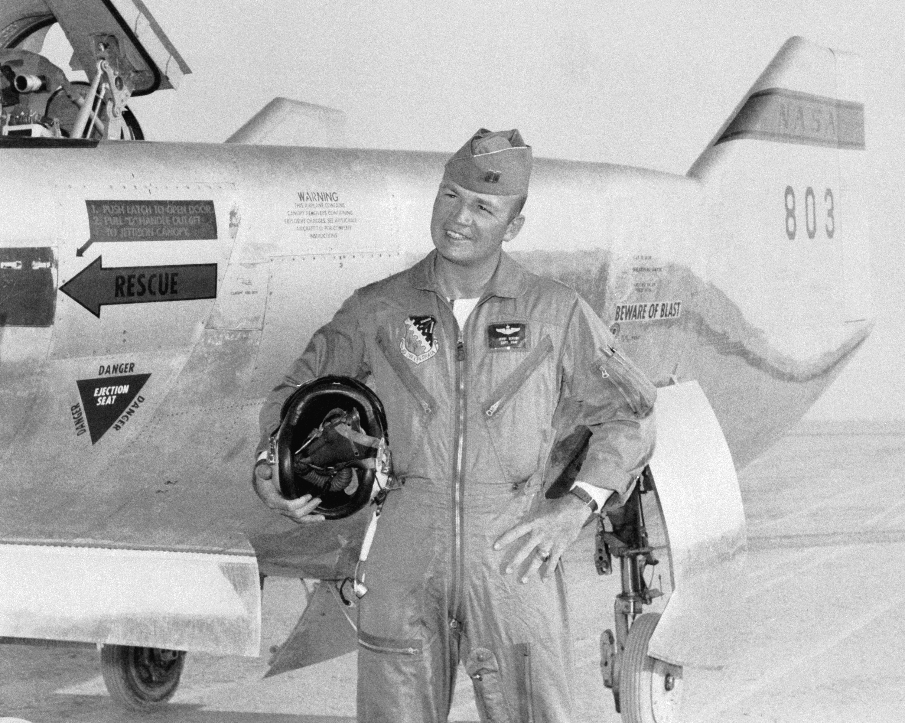 Cropped version of NASA image EC97-44183-1 to allow Wiki captions. Air Force Capt. Jerauld Gentry, shown in this photo with the M2-F2, made a total of 30 lifting-body flights in 5 different vehicles--the M2-F1 (2 flights), M2-F2 (5 flights), M2-F3 (1 flight), HL-10 (9 flights), and X-24A (13 flights). While 3 other pilots had more total flights (Milt Thompson with 51, John Manke with 42, and Bill Dana with 31), Gentry was the only lifting-body pilot to fly 5 different vehicles in the program.